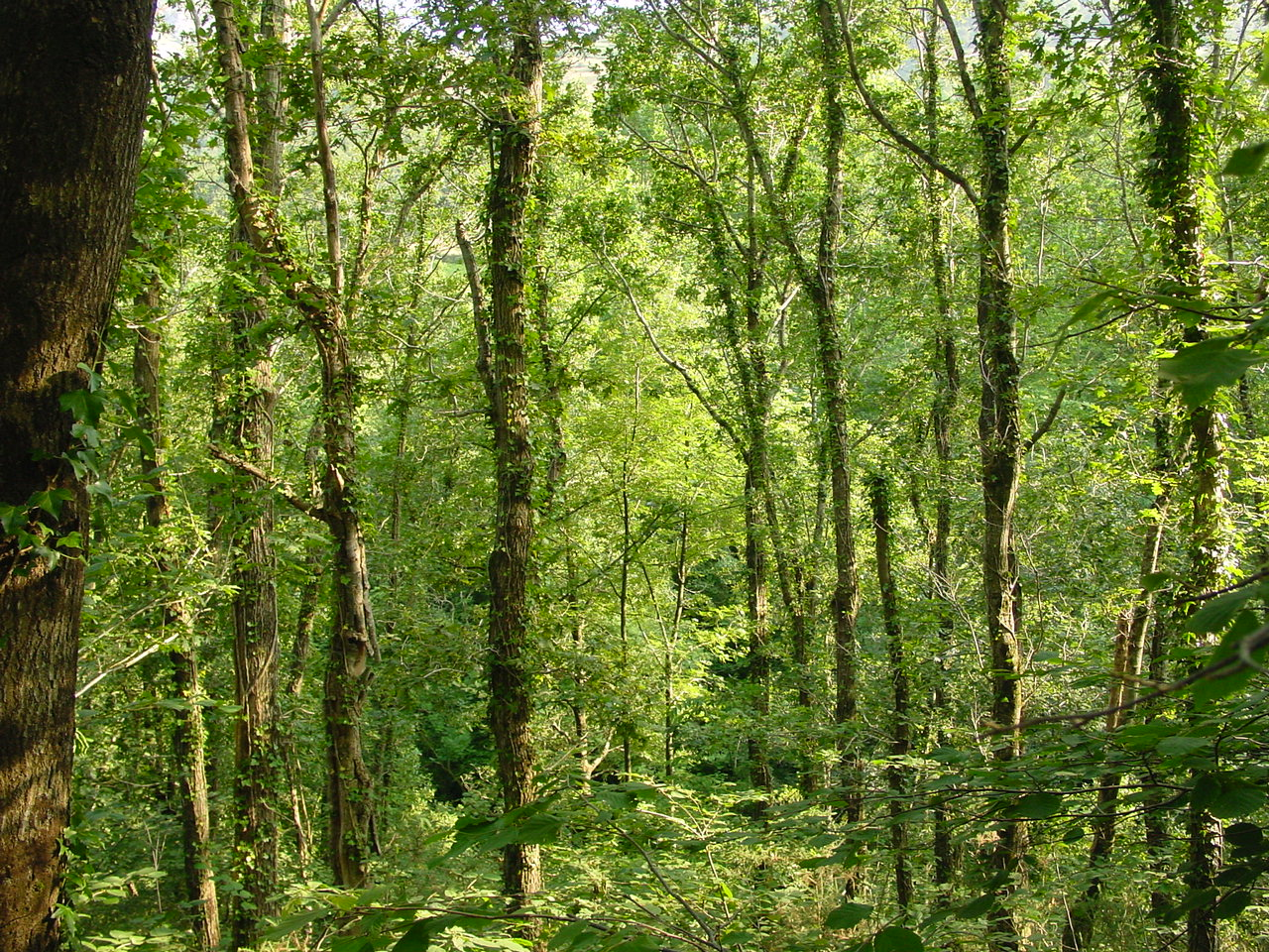 Native forest in Cantabria Region, Spain.